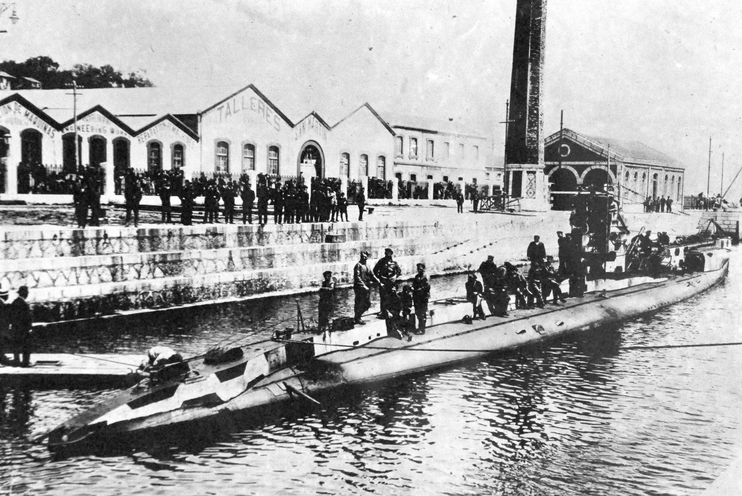 Lot-5410-6: German UC-56, Driven to Internment by Christabel, the smallest of American Armed Yachts in France, which damaged the submarine, so that it had to make port 24 May 1918 at Santander, Spain, there this photograph shows her at dock. Secretary of the Navy Josephus Daniels Collection. Photographed through Mylar sleeve. Courtesy of the Library of Congress. (2016/07/22).